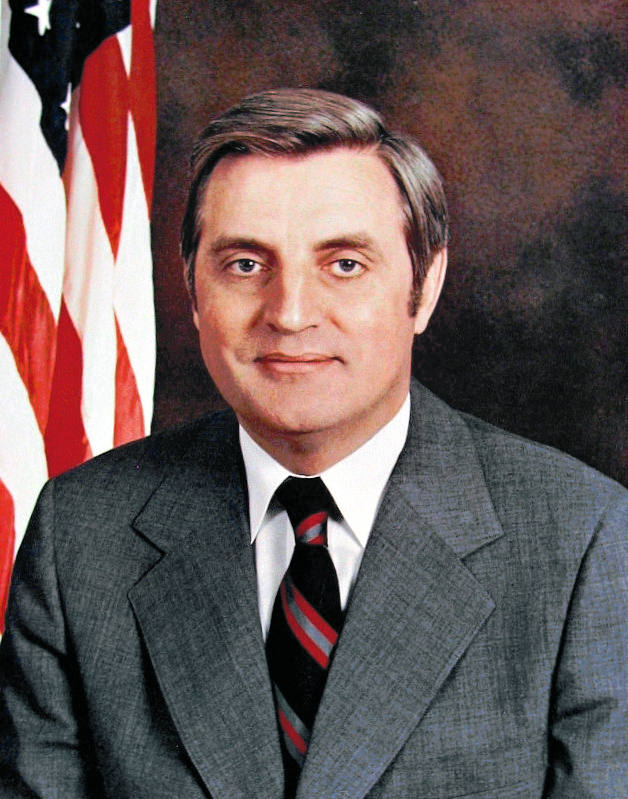 Vice President Walter Mondale